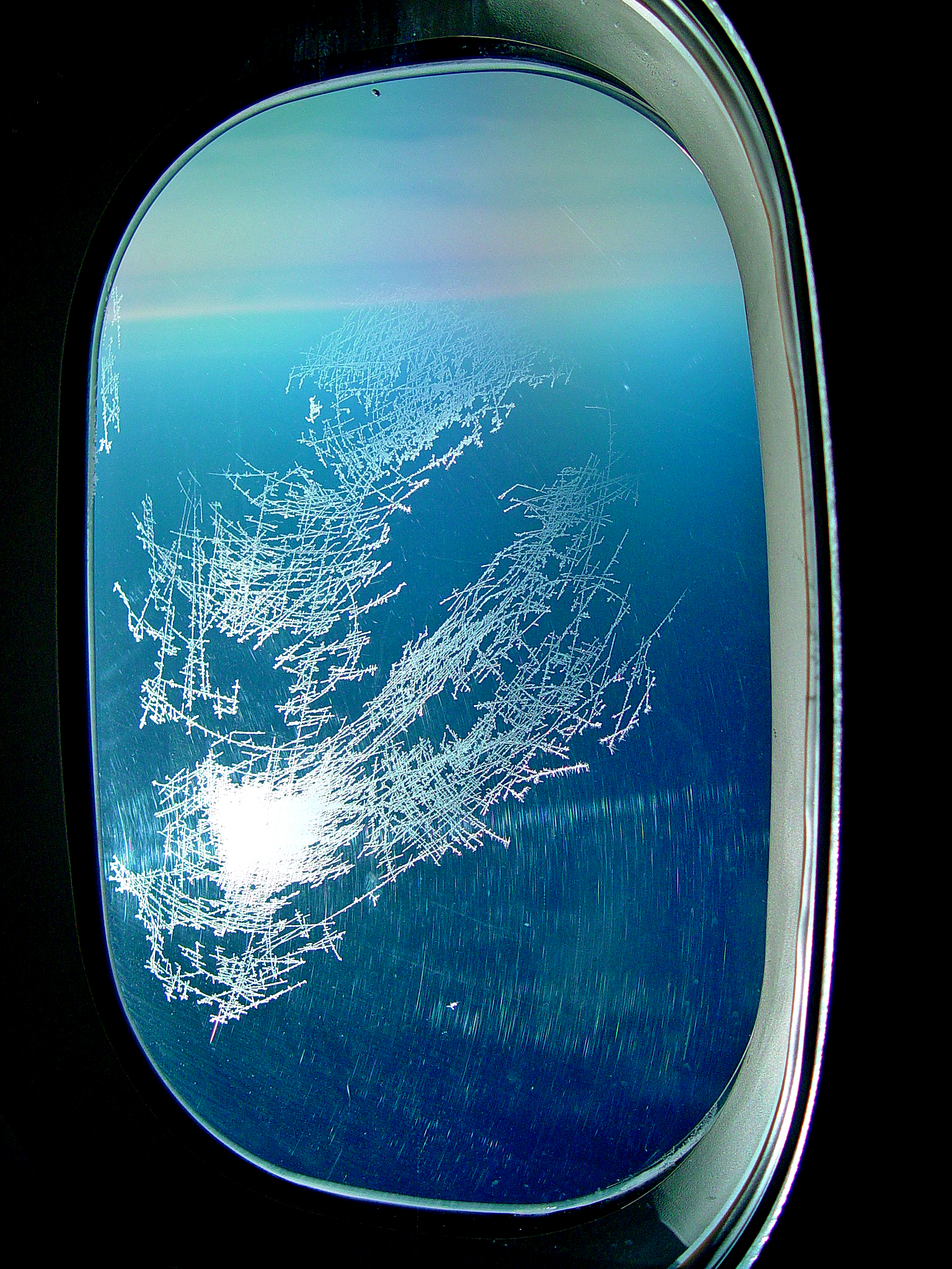 Ice formation on window glass of high altitude flying airplane